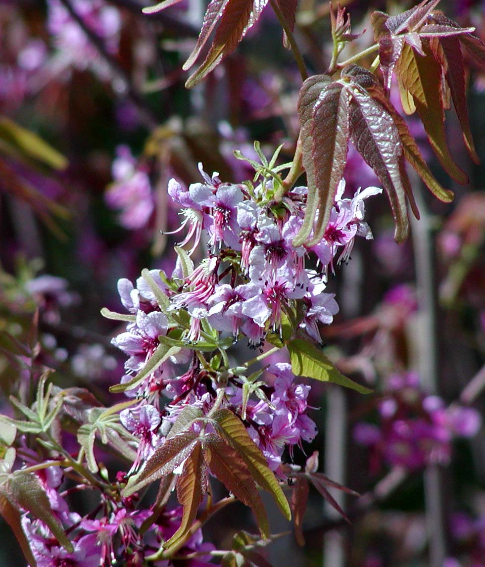 Photo of Ungnadia speciosa (Mexican buckeye) flowers at the Desert Demonstration Garden in Las Vegas